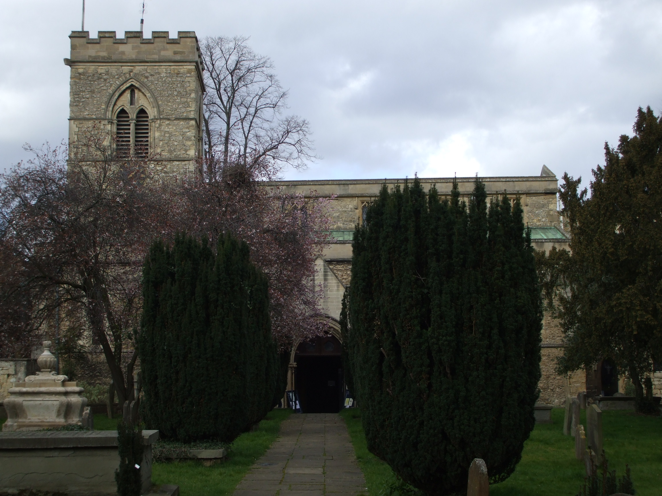 Church of England parish church of St Giles, Oxford.